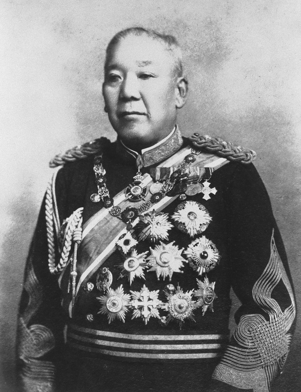 Portrait of Oyama Iwao (大山巌, 1842 – 1916)